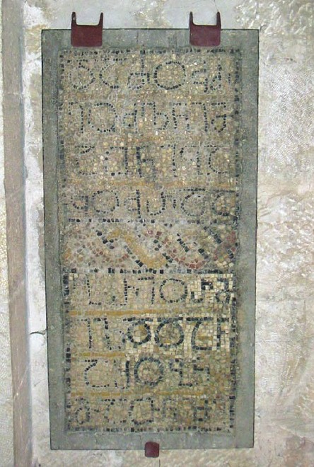 Oldest Georgian Asomtavruli inscription found in Bir El-Qutt და ძუძ ეულნი მ- ათნი ბა- კურ და გრი ორმ- იზდ და ნ- აშობნი მათნი ქ~ე Translation: "Jesus Christ, have mercy on Bakur and Griormizd and their descendants"